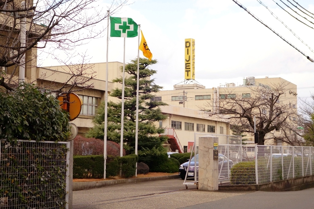 Dijet co.Ltd